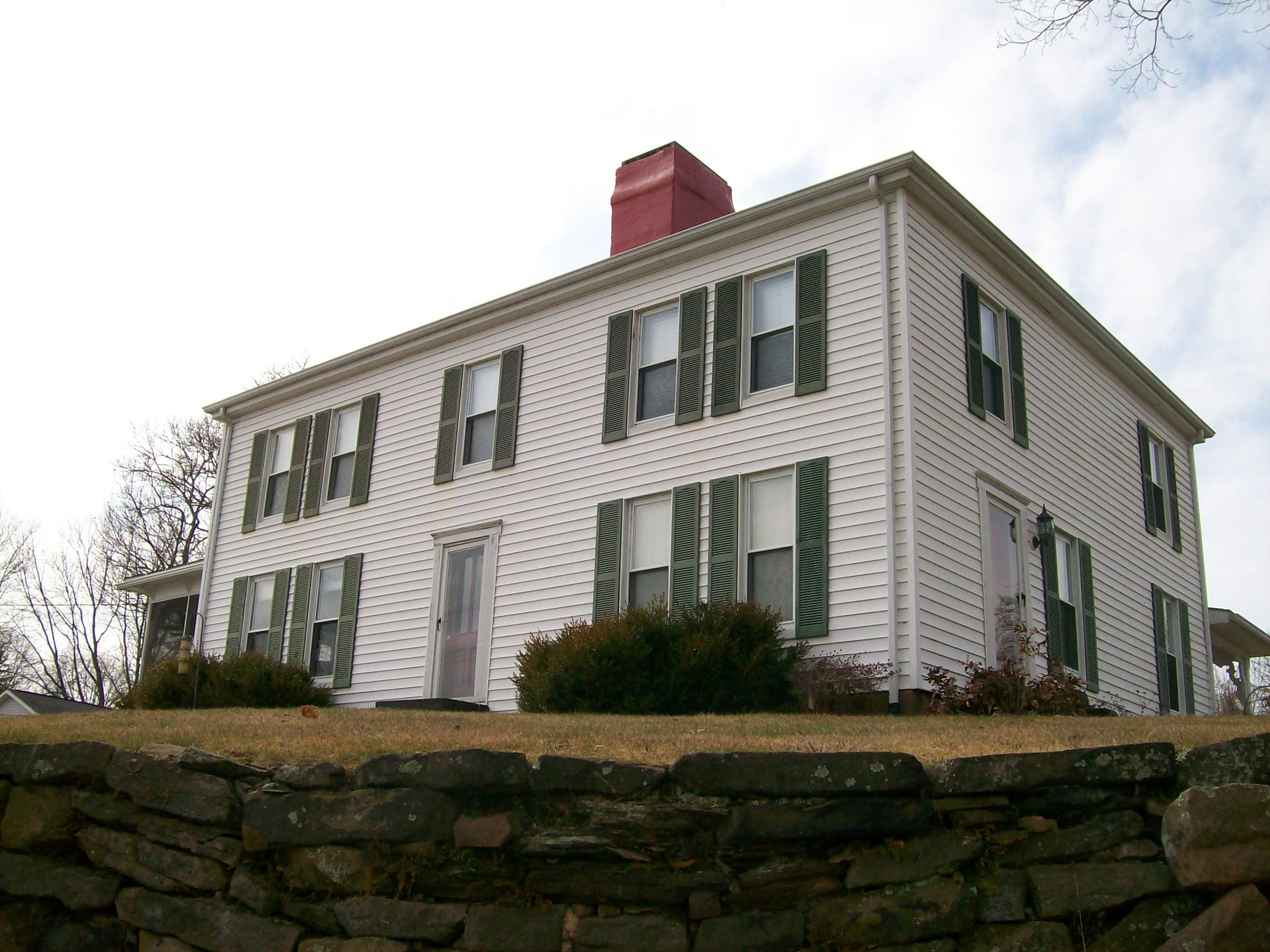 The Sawyer-Curtis House in Little Hocking, Ohio. The house is photographed showing its eastern side, which sits overlooking Allen Street and the Ohio River. The house is listed on the NRHP for Washington County. Taken March 10, 2010.